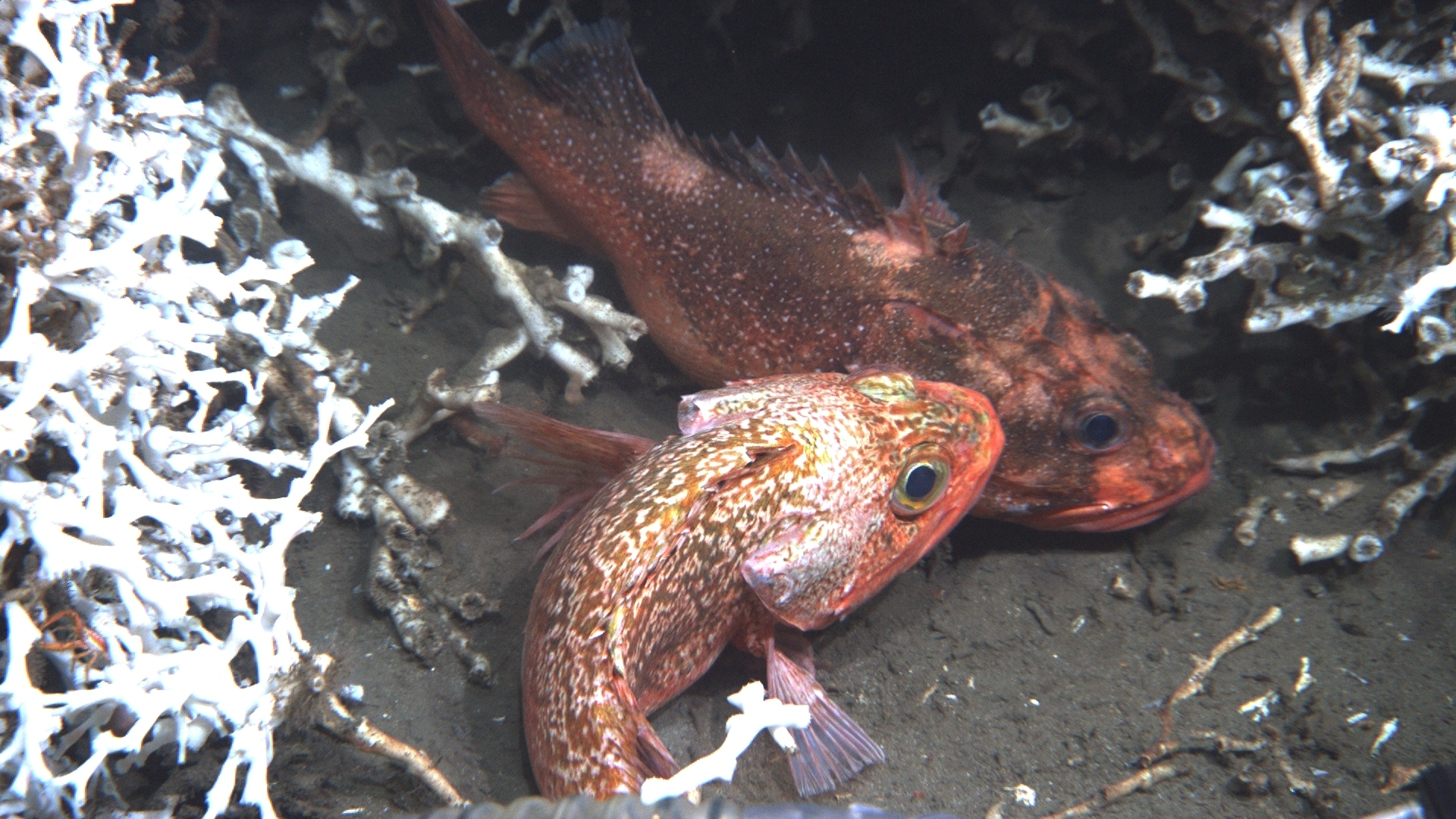 Deep sea fish. Blackbelly rosefish (Helicolenus dactylopterus). Also known as bluemouth rockfish and bluemouth seaperch. Using lophelia coral for habitat.